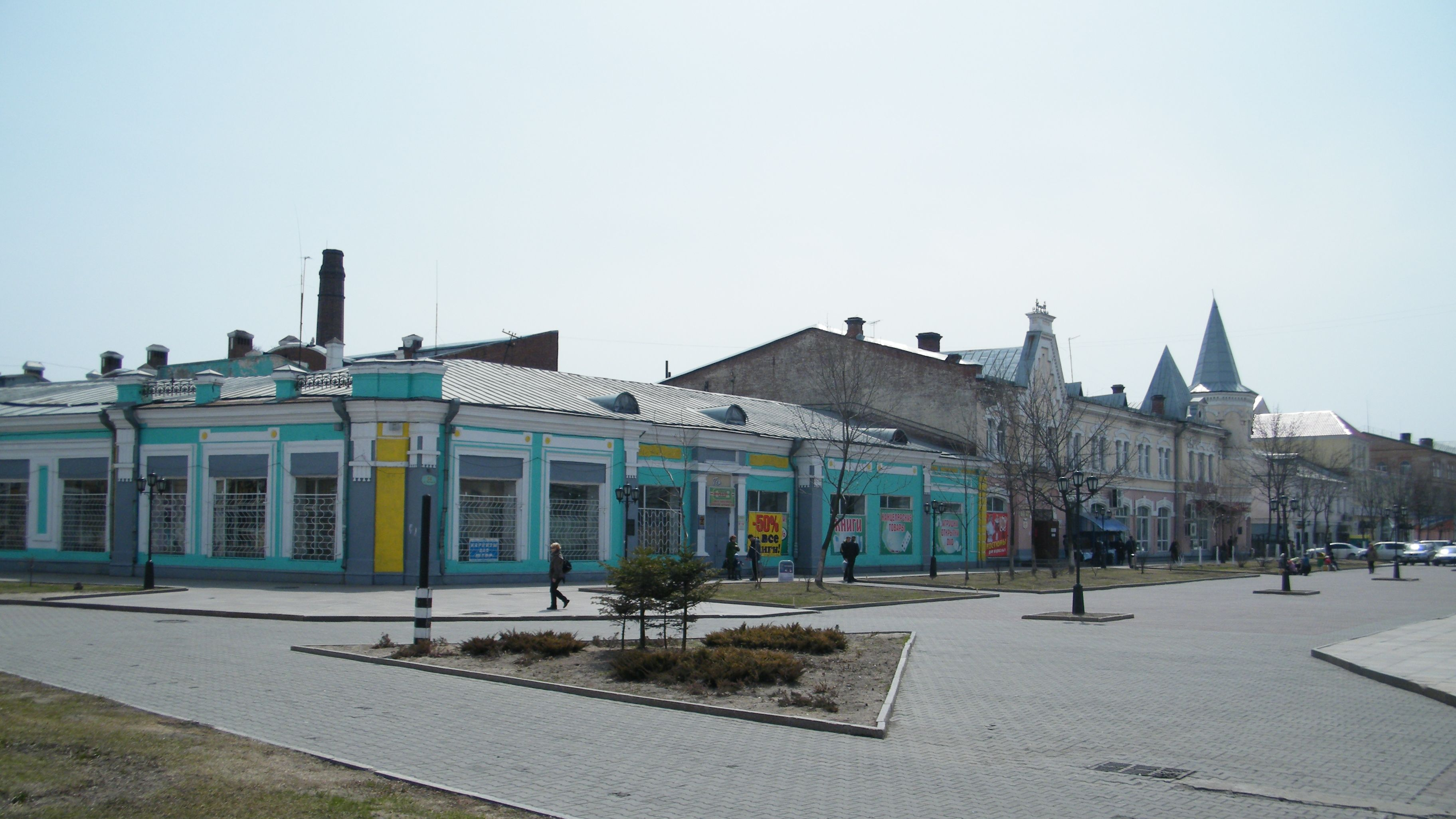 Магазин купца Чурина, Уссурийск